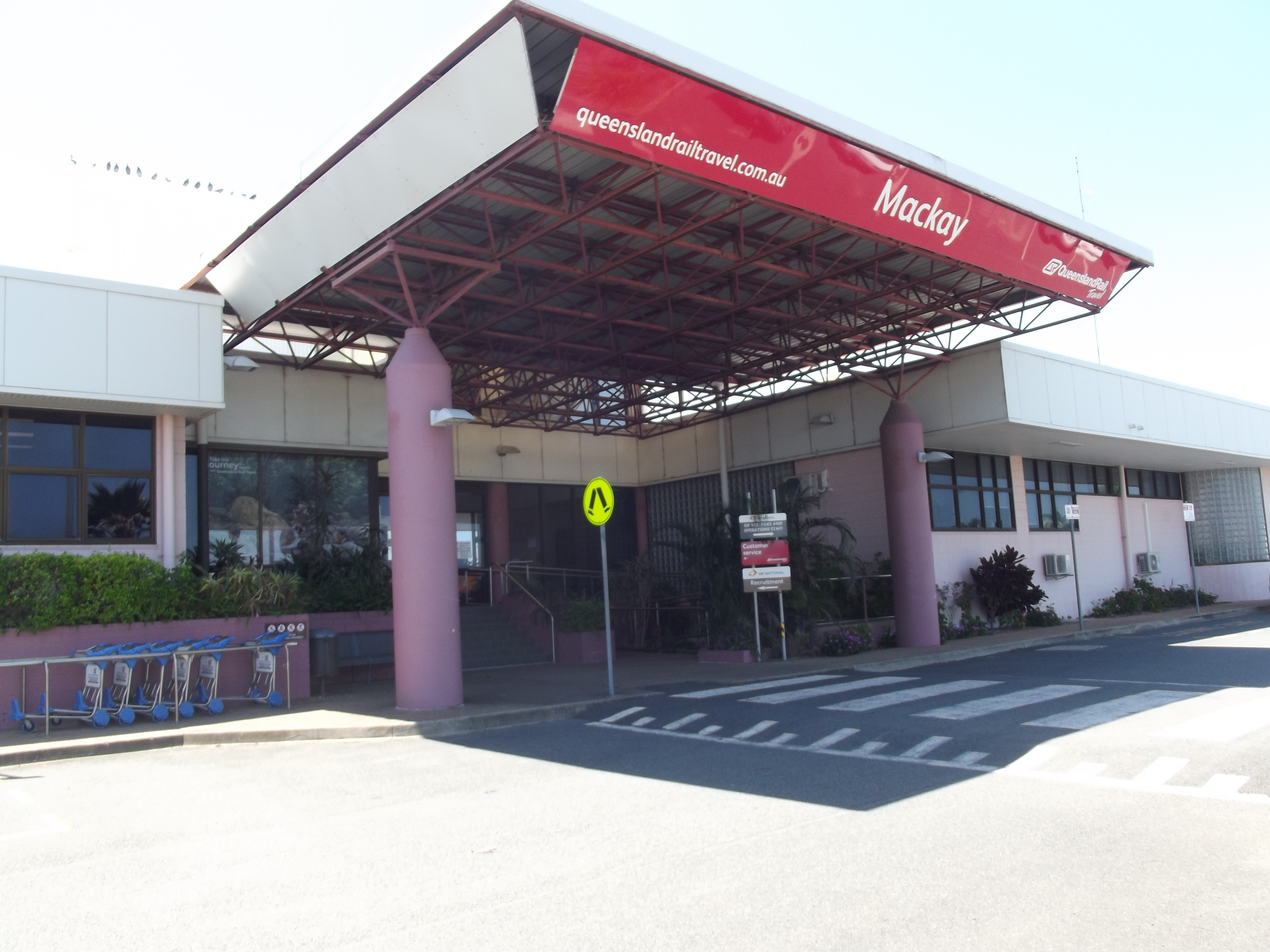 Mackay railway station, a major stop on the North Coast line in Queensland.